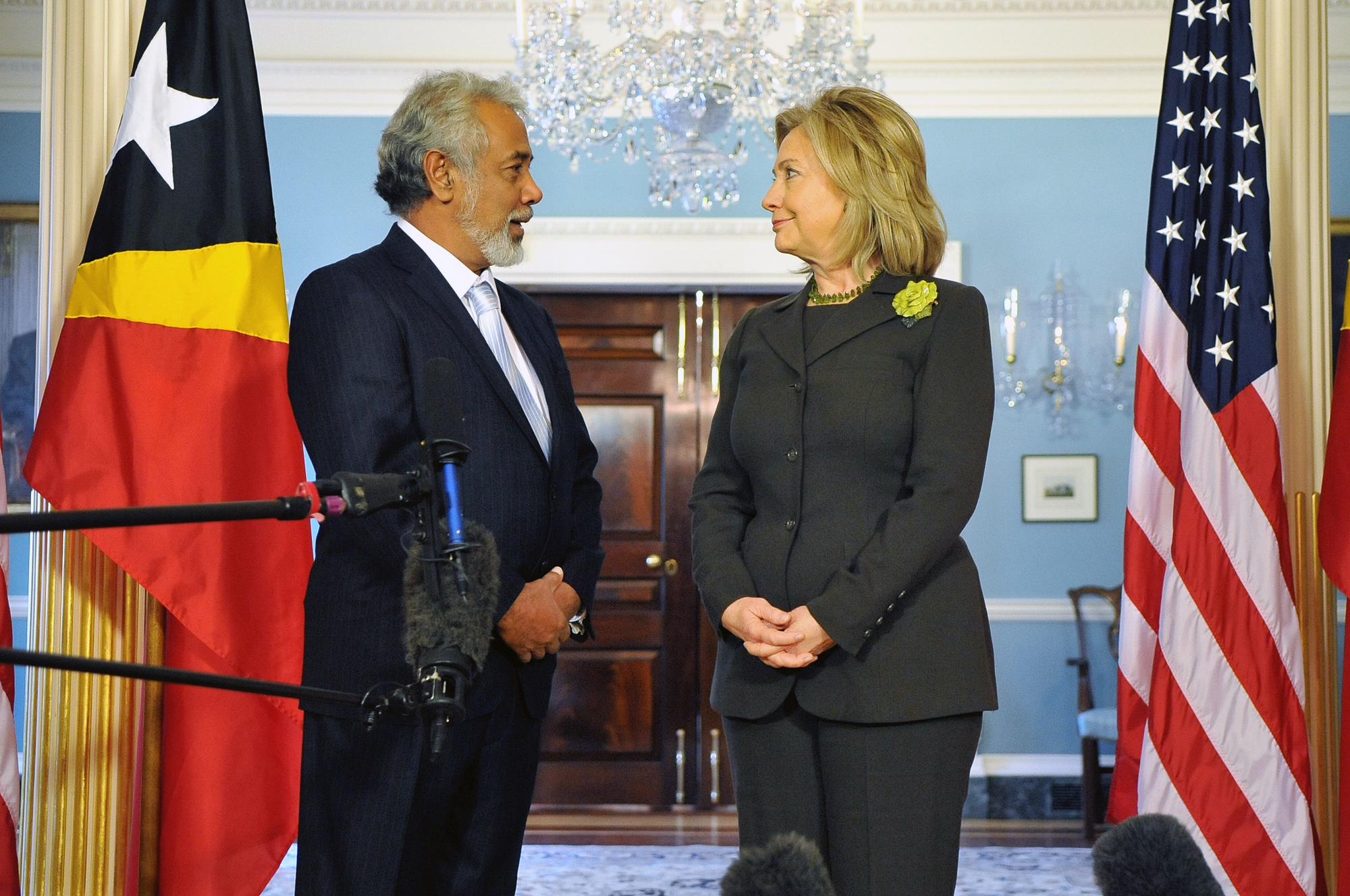 U.S. Secretary of State Hillary Rodham Clinton holds a bilateral meeting with Timor-Leste Prime Minister and Defense and Security Minister Xanana Gusmao at the U.S. Department of State in Washington, D.C., on February 24, 2011. [State Department photo/ Public Domain]